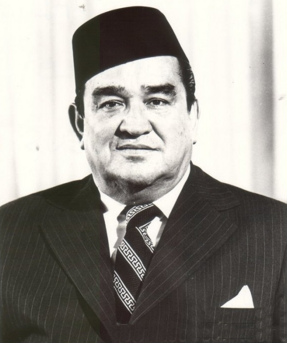 Donald Stephens/Tun Fuad Stephens, 3rd Yang Di-Pertua Negeri and 1st/5th Chief Minister of Sabah.